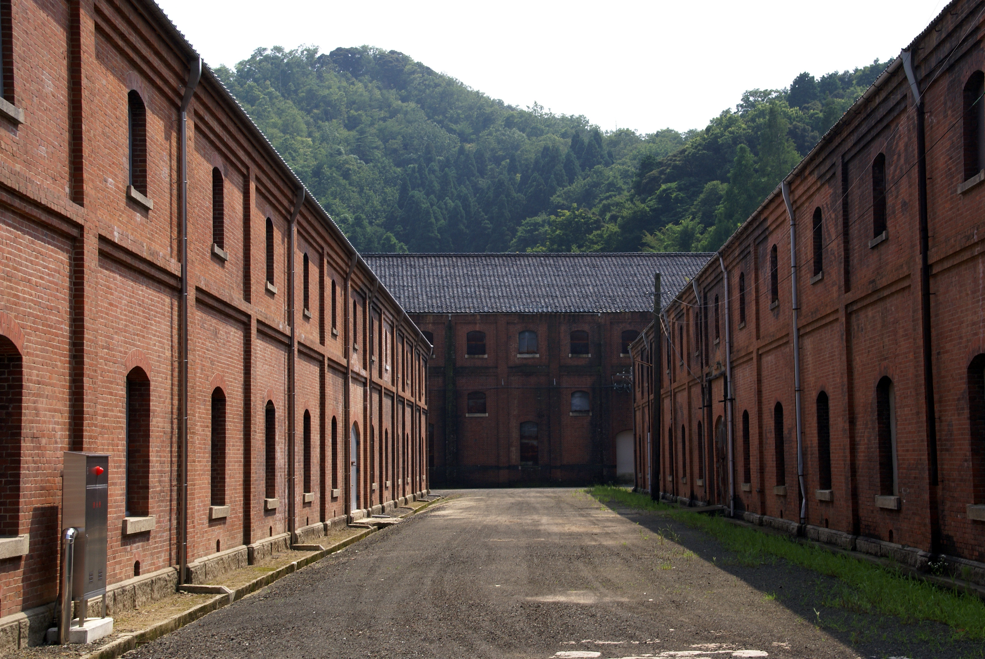 Maizuru Red Brick Warehouses in Maizuru, Kyoto prefecture, Japan